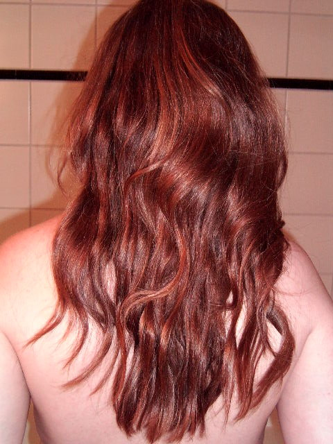 redhead - natural red hair